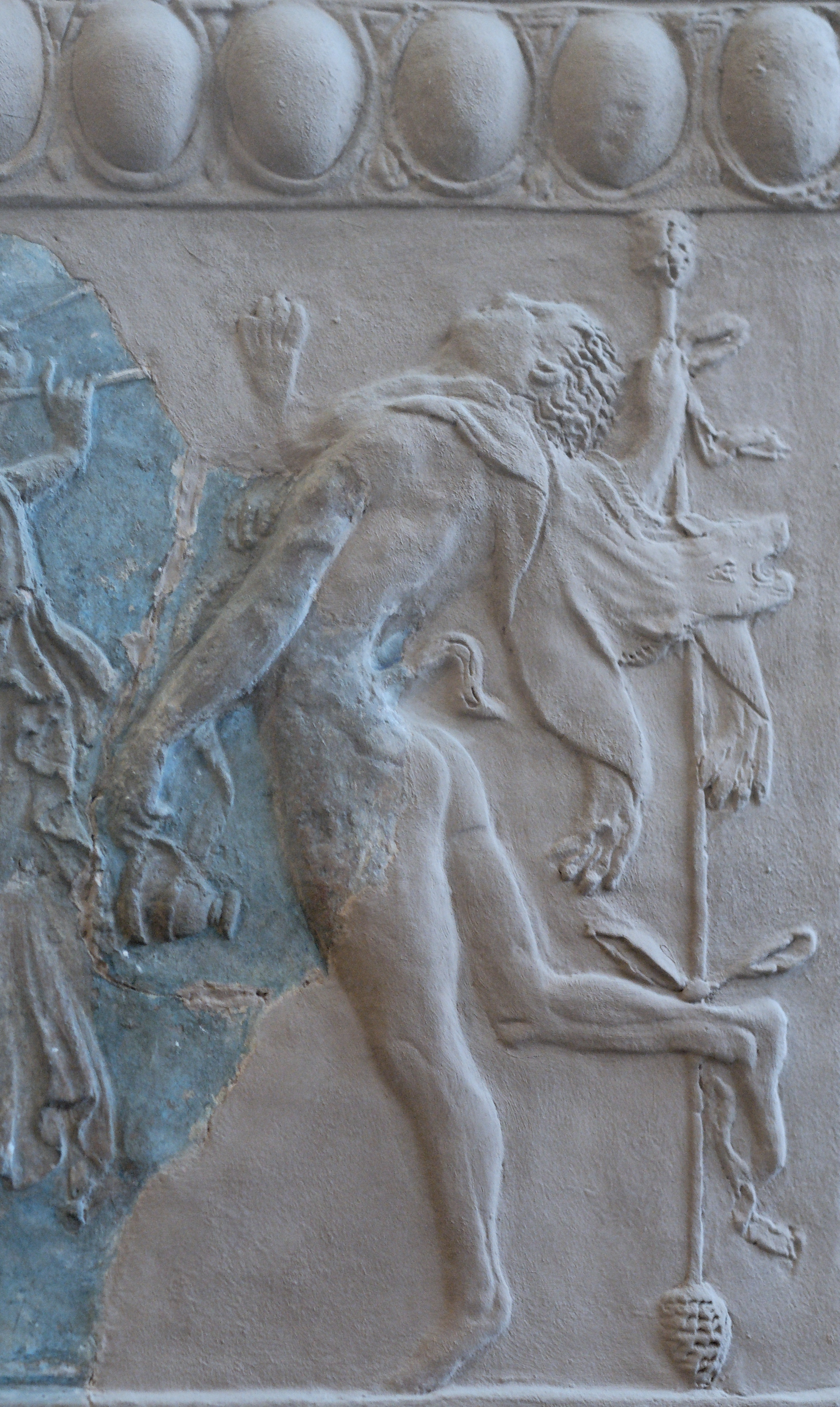 Frenzied satyr holding a thyrsus and a kantharos, modern restoration of a fragmentary Campana plaque after an identifcal plaque from the Metropolitan Museum of Art in New York City. Original: terracotta; restored parts: coloured plaster, neo-Attic production.